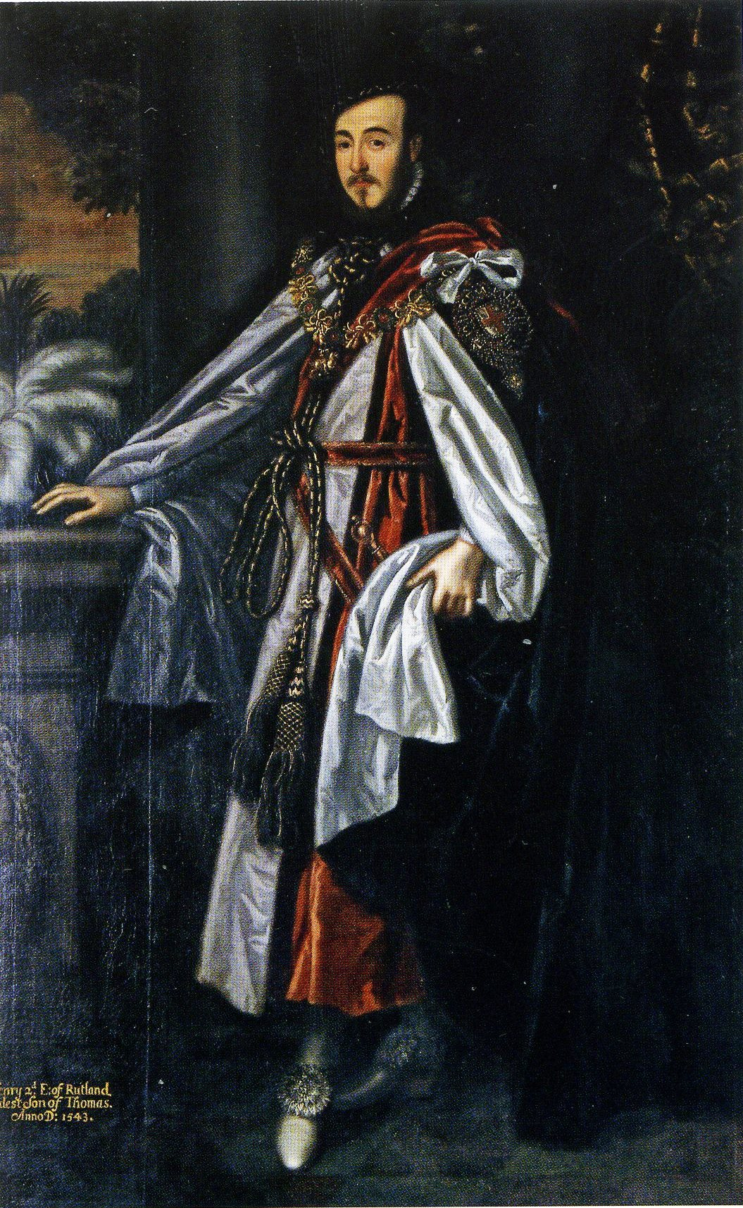 Henry Manners, 2nd Earl of Rutland Imagined portrait, one of a series for Belvoir Castle of the first eight Earls, not from life (Oxford Dictionary of National Biography, article on Jeremiah van der Eyden).